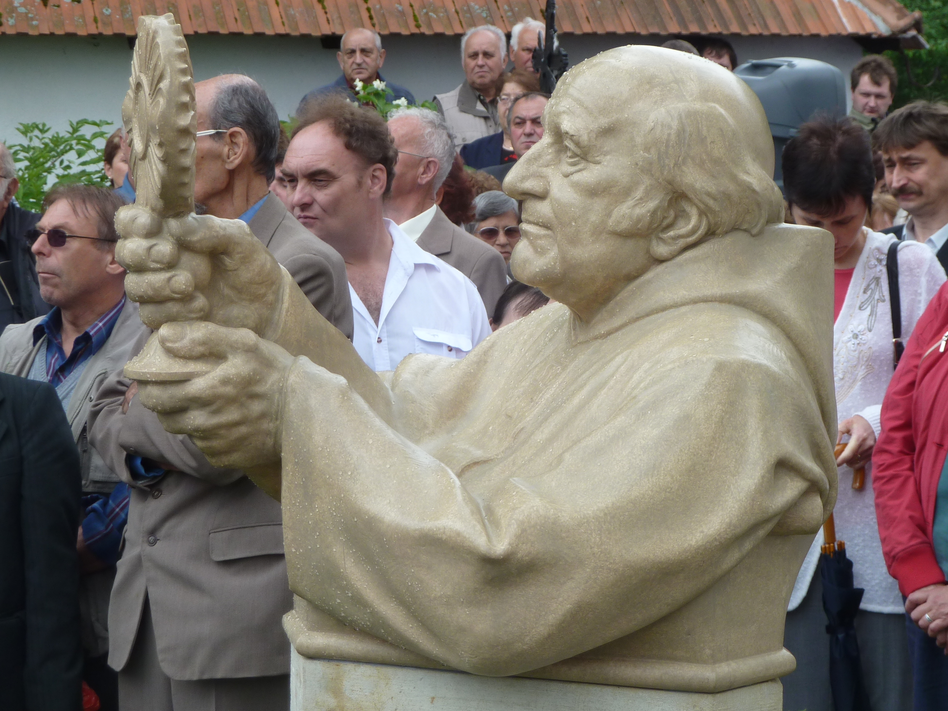 Memorial of priest Martin František Vích during its unveiling.